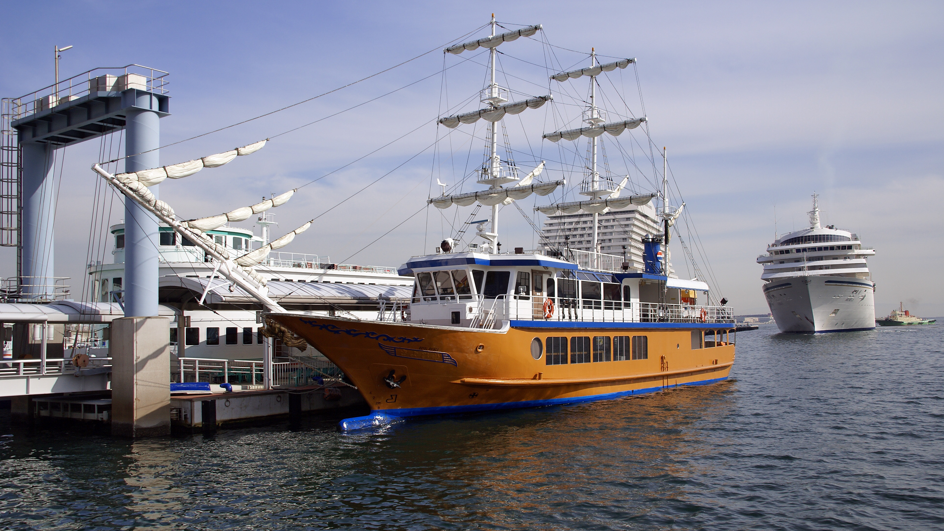 "Royal Prince" who anchors at "Nakatottei Central Terminal" of the Kobe harbor ( Kobe, Hyogo, Japan)